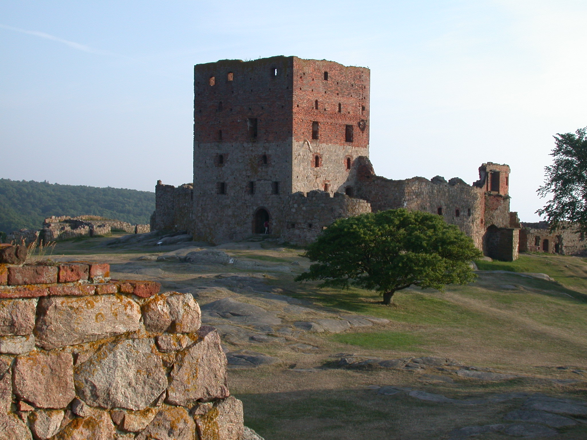 Hammershus a ruin of Northern Europe's largest medieval fortification from around 1255 on Bornholm, Denmark.